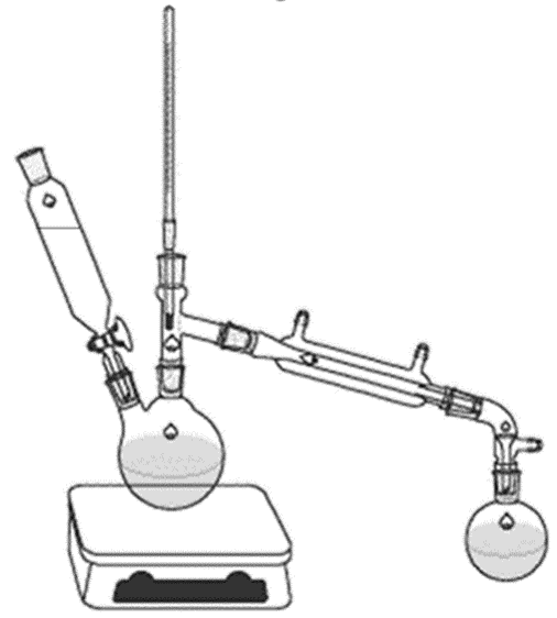 In-situ steam distillation